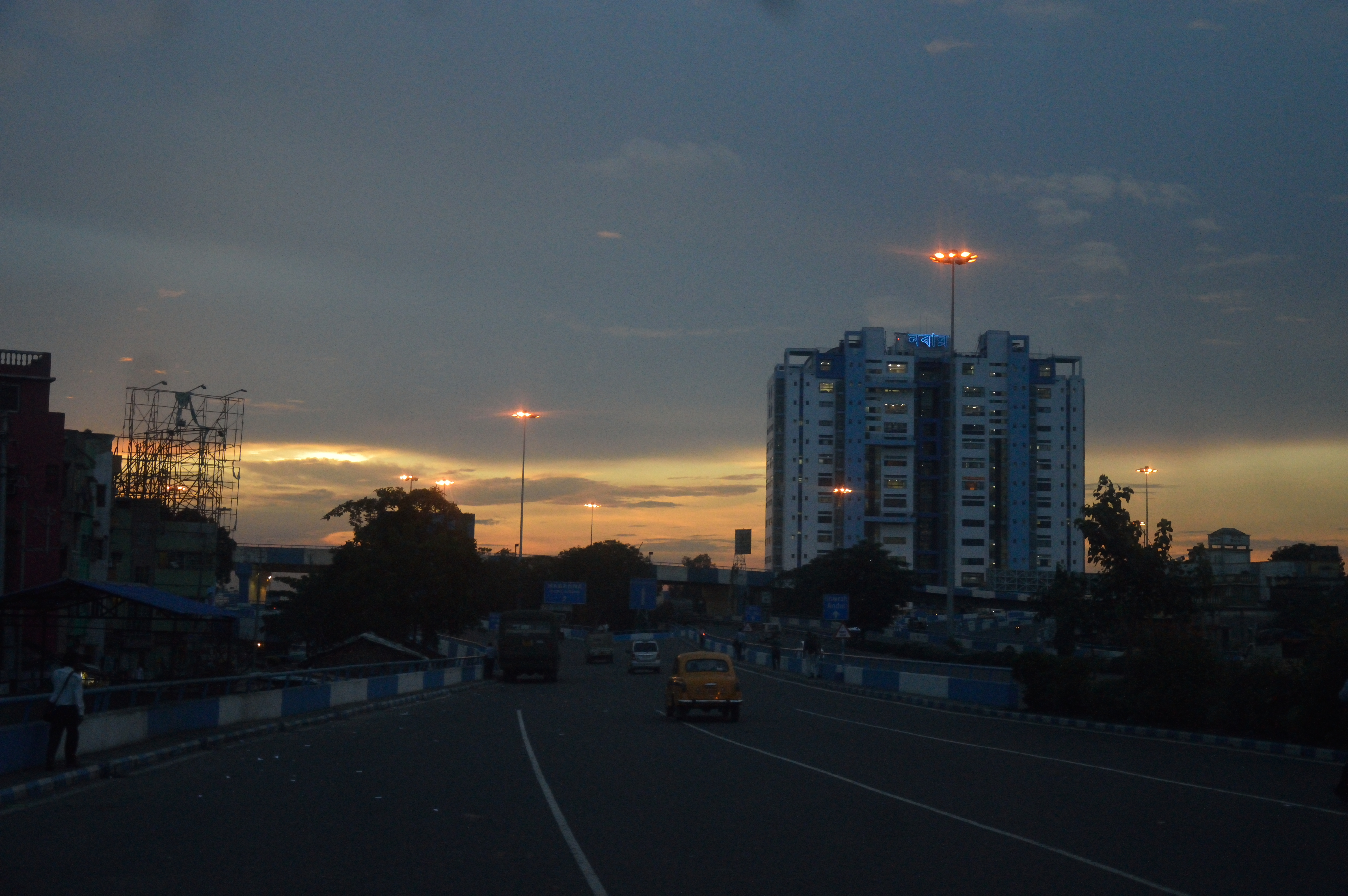 Photographed in Howrah.